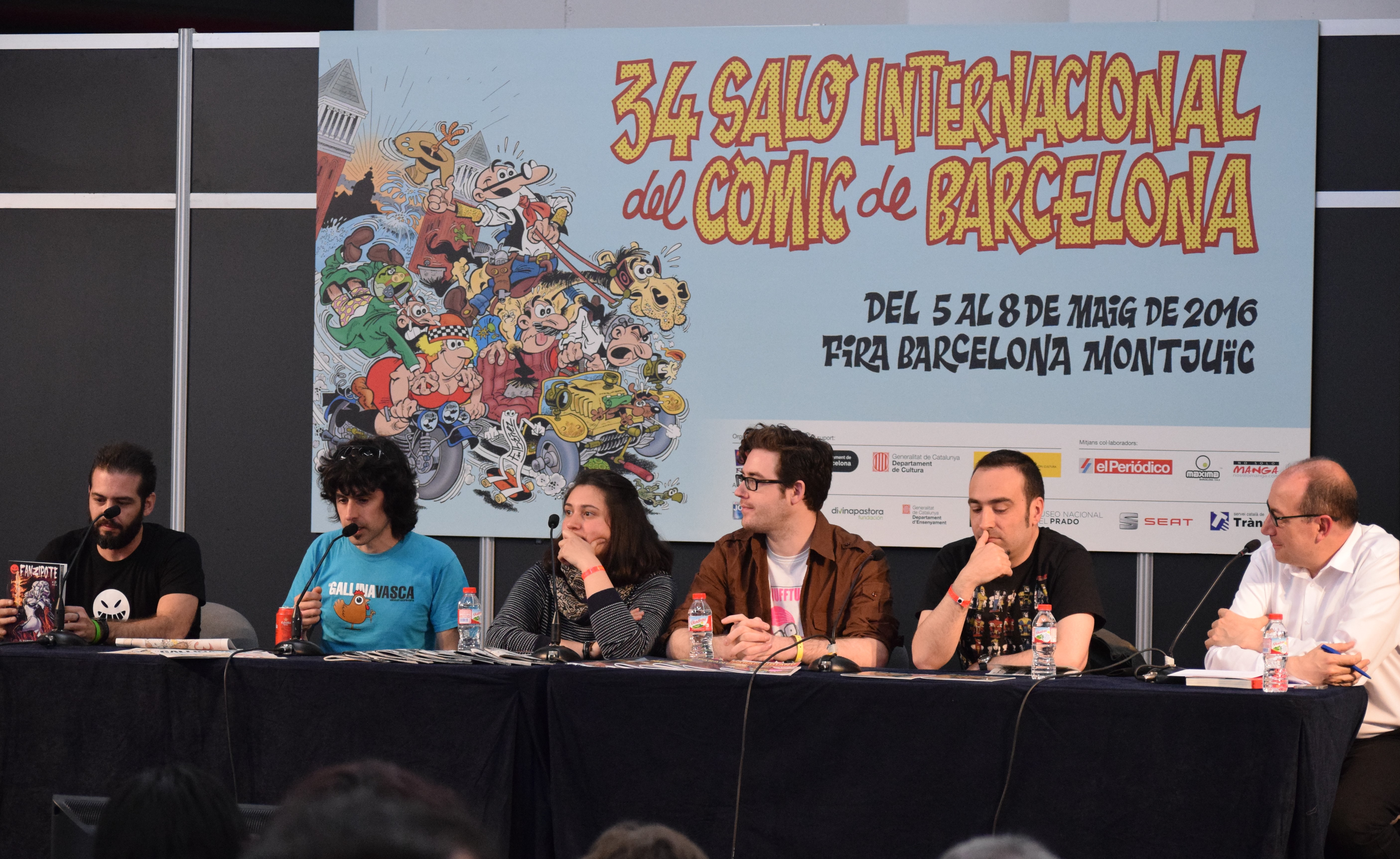 Conference with the nominated to the prize to the best fanzine. Speakers (from left to right): Juan Román García Aguilar (Fanzipote), Antonio (La Gallina Vasca), Núria Tamarit Castro (Nimio), José Martínez Sánchez (Paranoidland), Óscar Blanco García (Zocalo Fanzine) and the journalist Vicent Sanchis, moderator of the conference. Barcelona Internacional Comic Convention. Friday 6 may 2016.